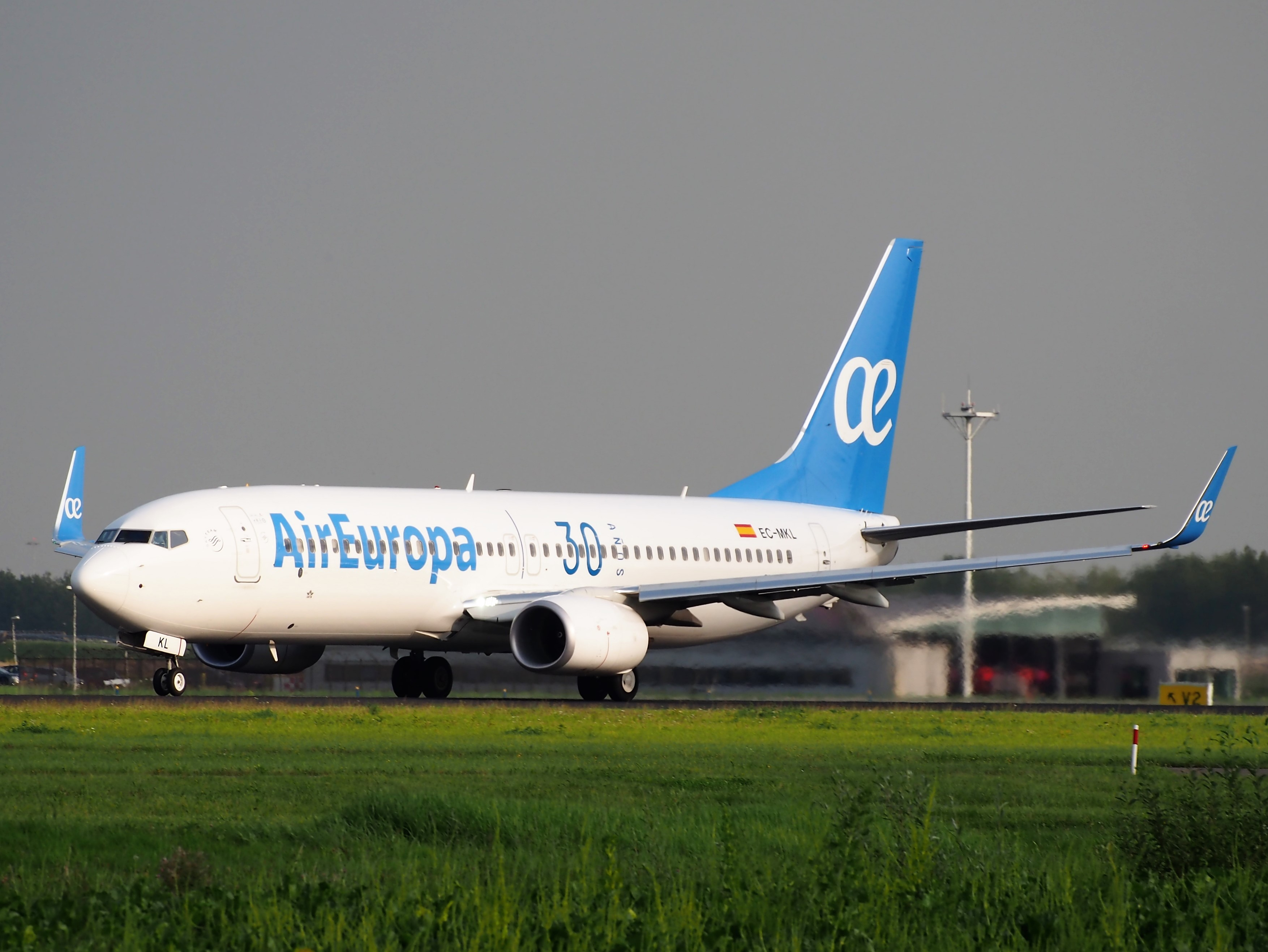 Photographed at Schiphol (EHAM-AMS) runway 36L, The Netherlands.